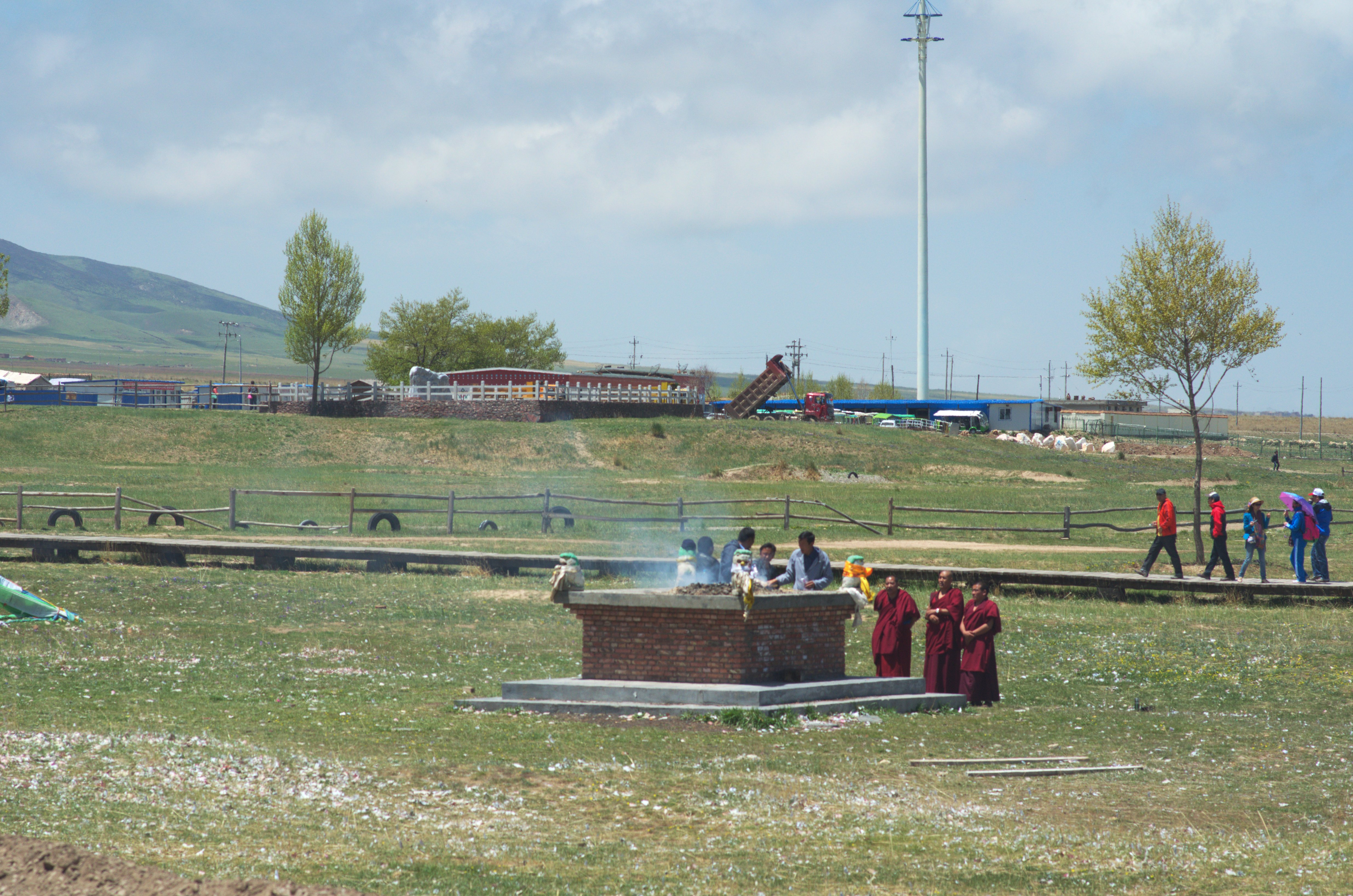 Some Zang people or Mongol people lamas and civilians practizing rituels around Qinghai Lake.